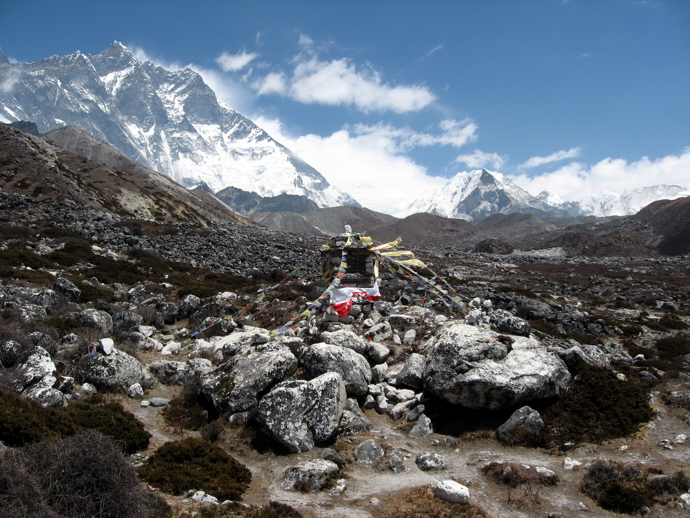 Small Buddhist stupa in Imja river near Dingboche village.